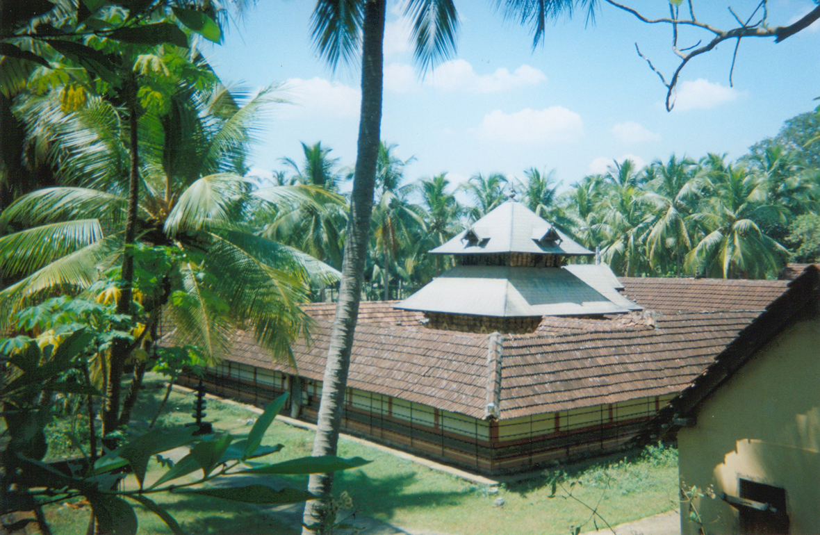 Killikkurussi Mahadeva Temple. This Shiva temple situated at Killikkurussimangalam is believed to be founded by Sage Shri Suka Braharshi. Author: Sreekanth V (Sreekanthv) Source: photo is taken from the private collection of Sreejith PK & Sreekanth V.